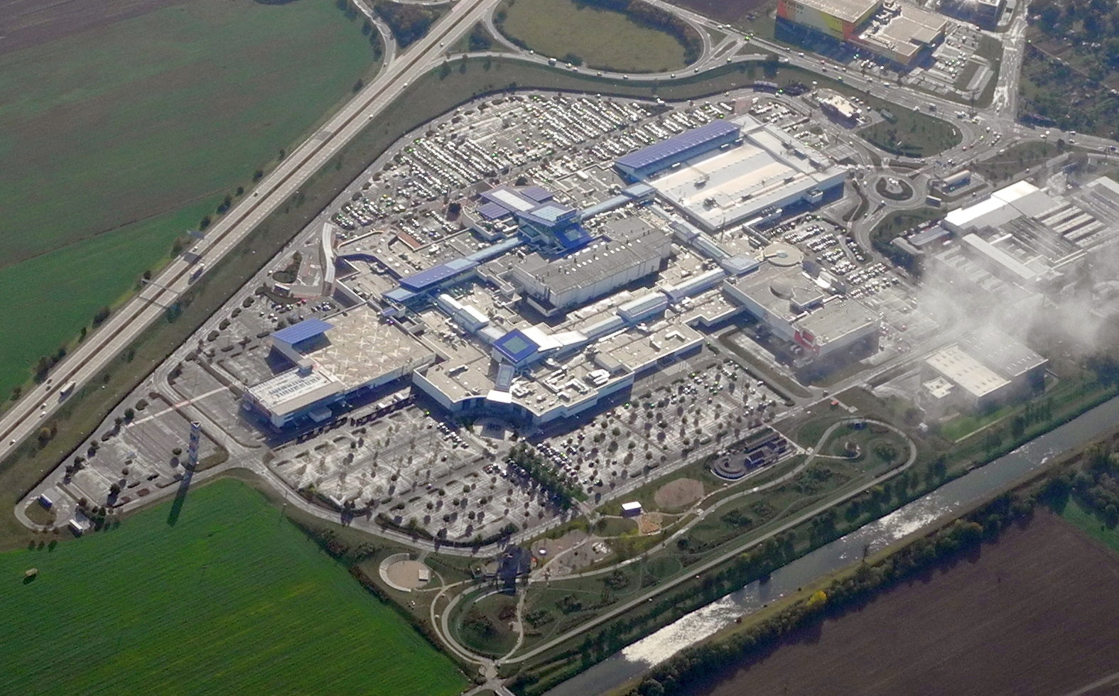 Shopping Center Olympia Brno